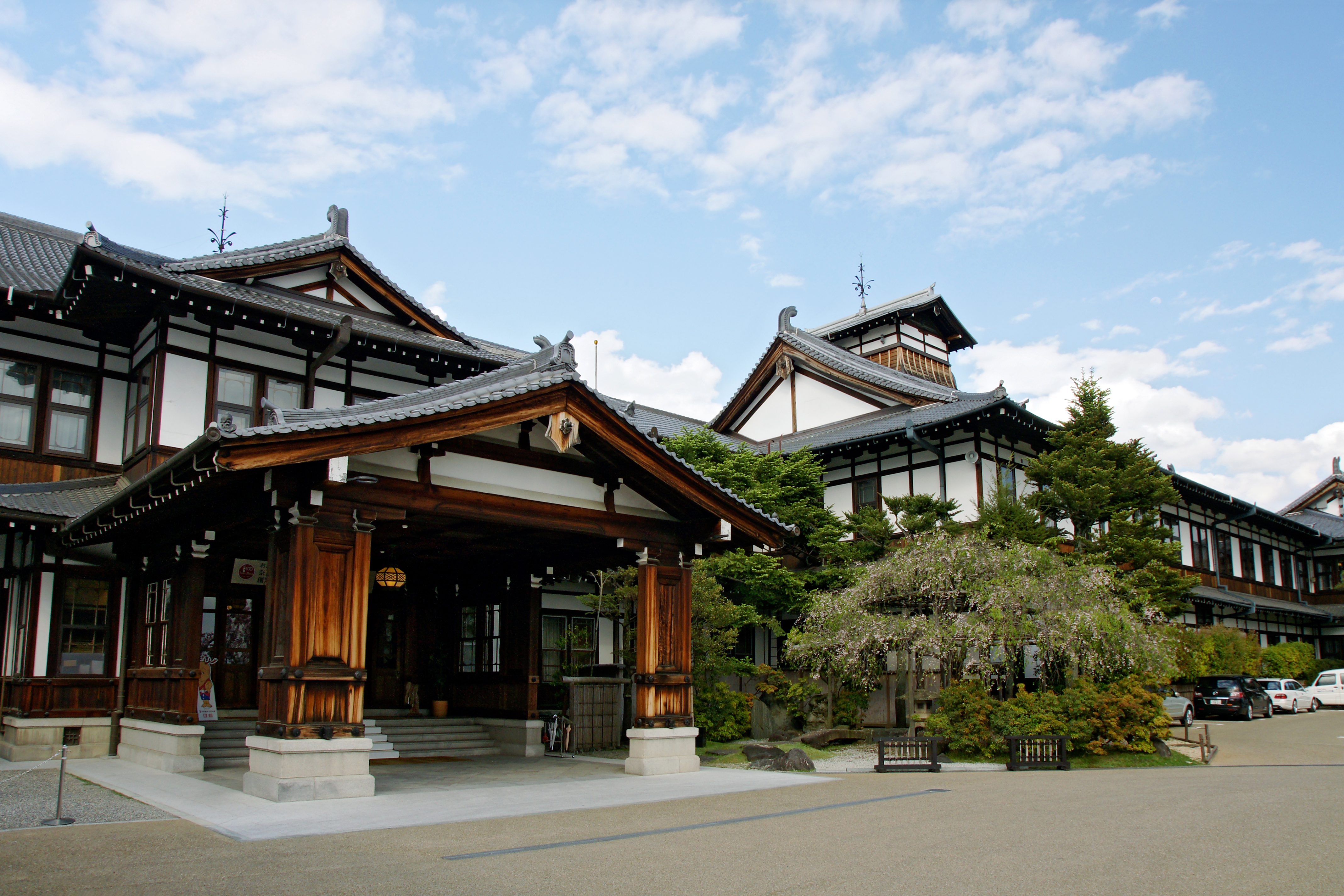 Nara Hotel in Nara, Nara prefecture, Japan